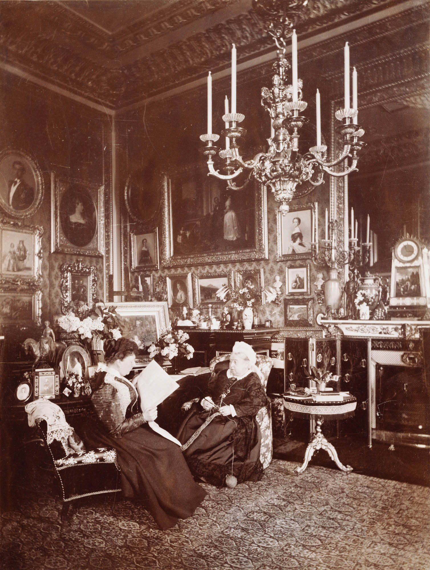 Photograph of Queen Victoria and Princess Beatrice inside Windsor Castle taken by Danish photographer Mary Steen in 1895